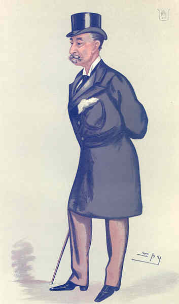 Caricature of Sir Henry Ainslie Hoare, 5th Baronet. Caption read "reformed Radical".